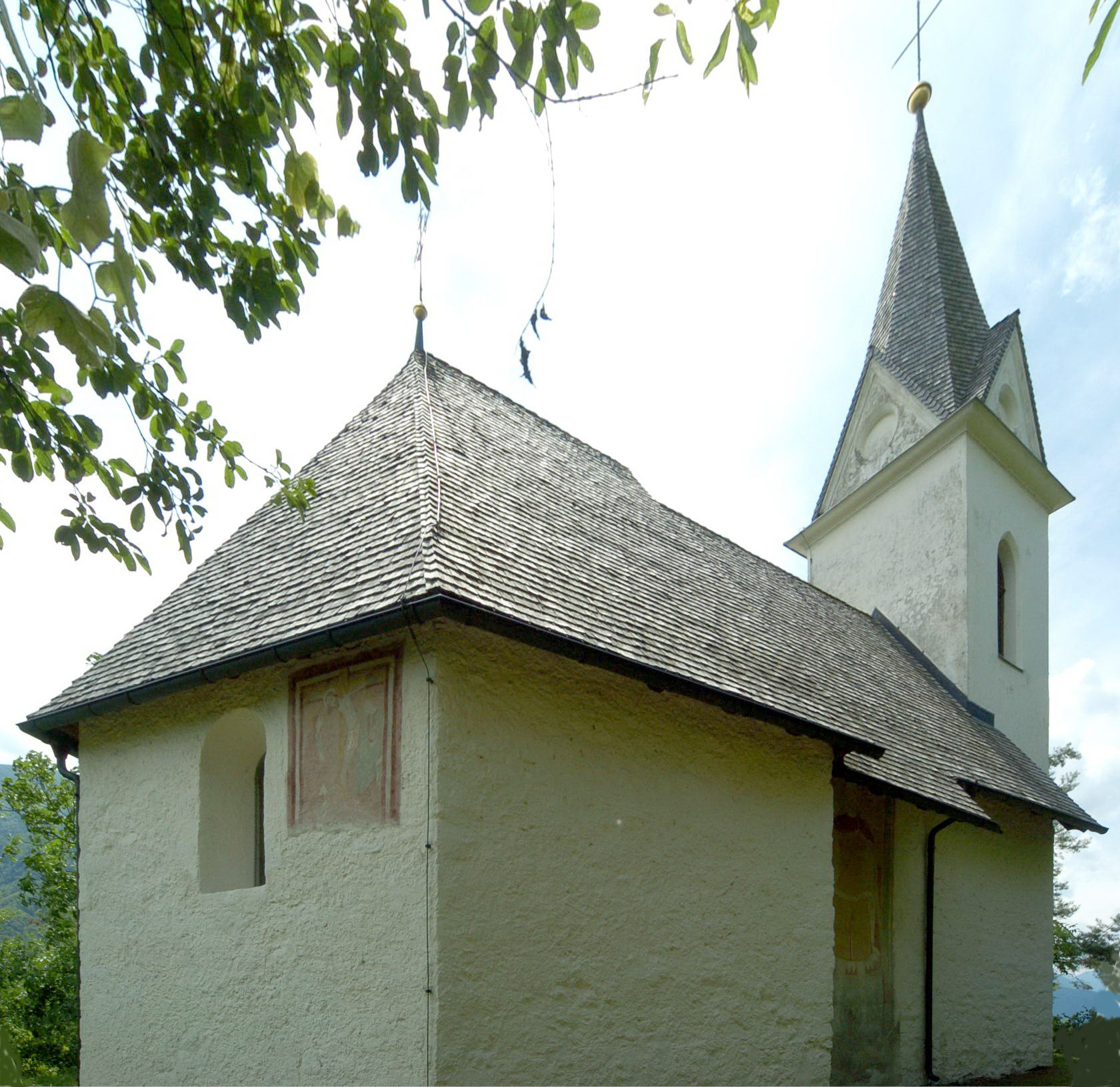 Subsidiary church Saint Leonard at Guntschach, municipality Maria Rain, district Klagenfurt Land, Carinthia / Austria / EU